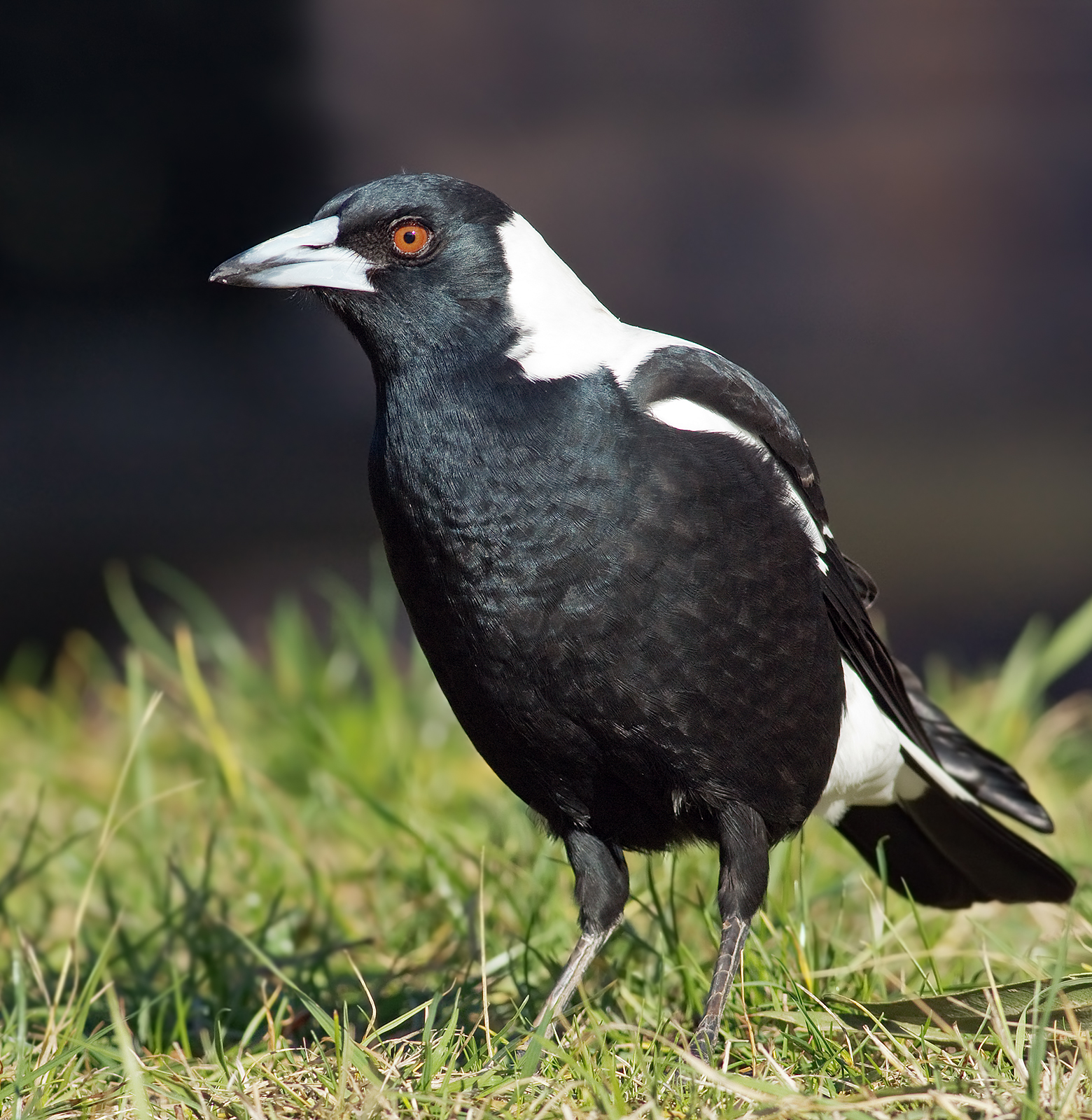 Australian Magpie (Cracticus tibicen hypoleuca), male, Queen's Domain, Hobart, Tasmania, Australia